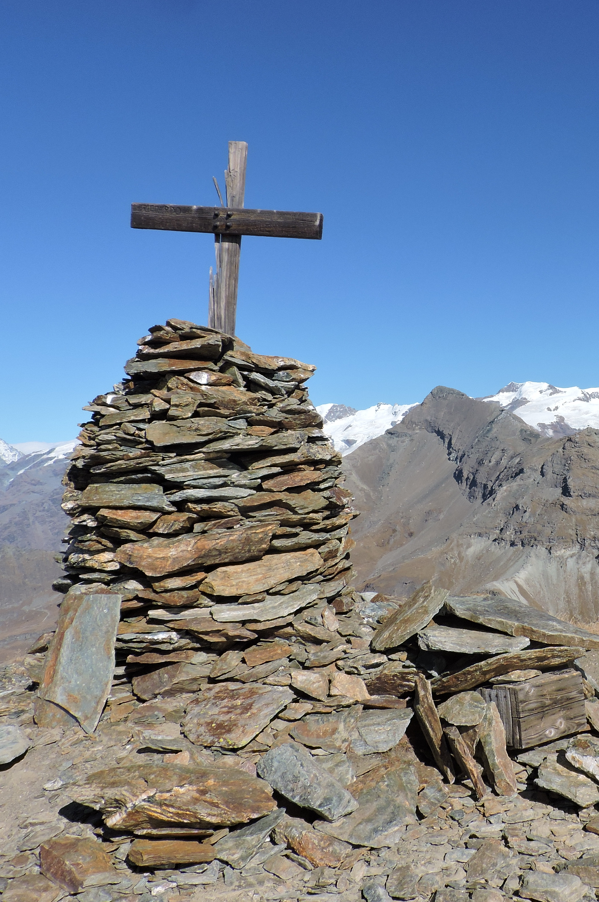 Corno Vitello: summit cairn and cross, Testa Grigia in the background